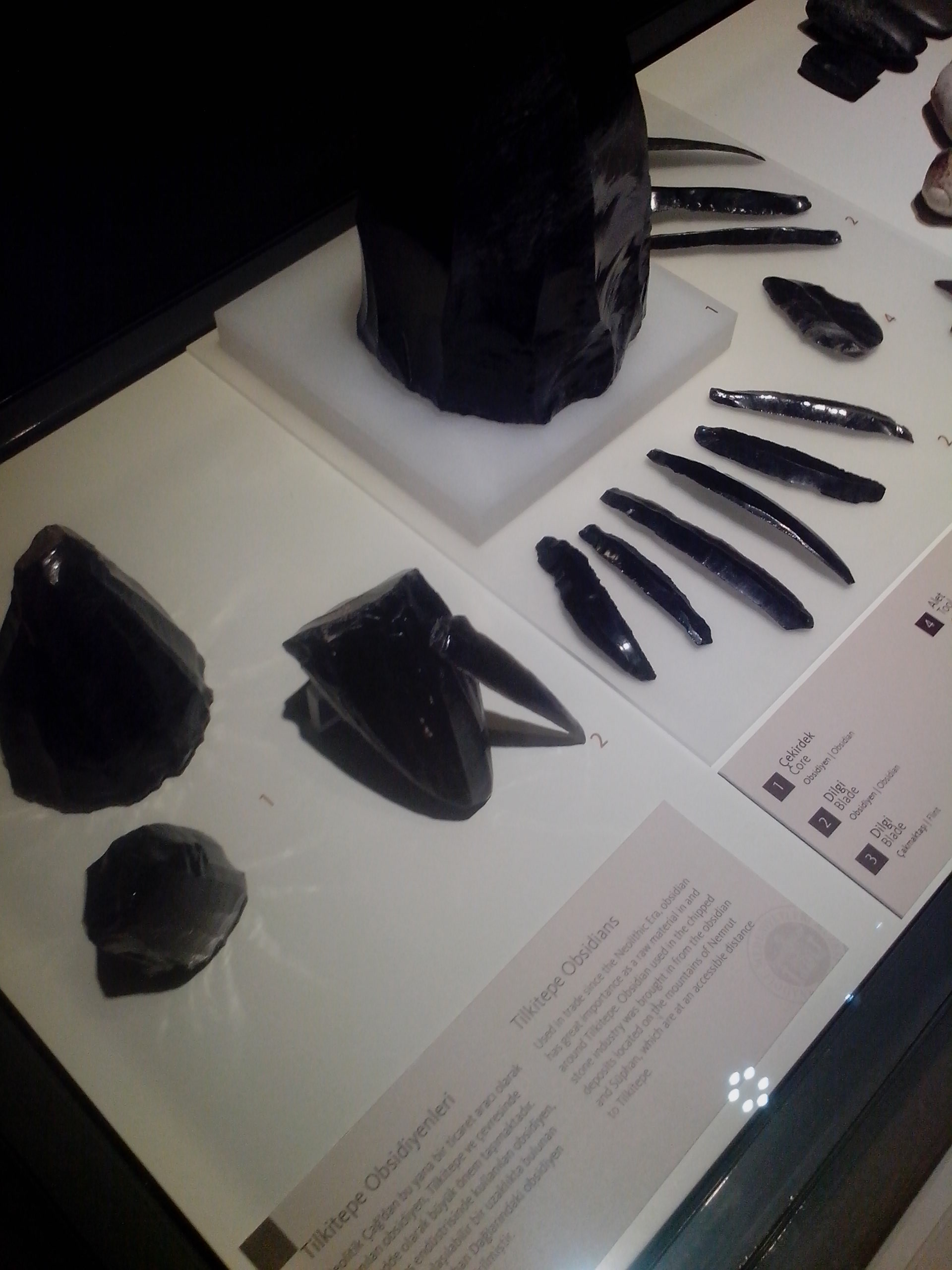 Obsidian